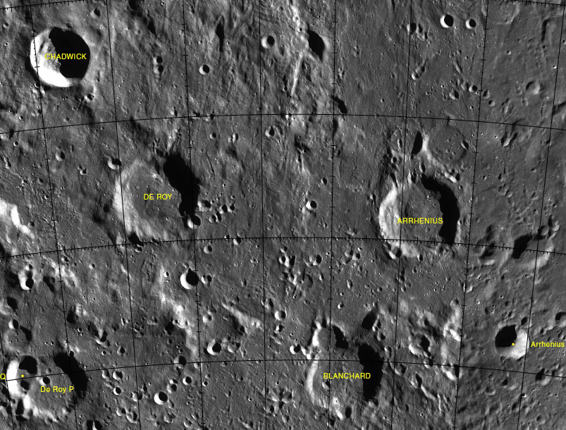 Part of the chart LAC-135.